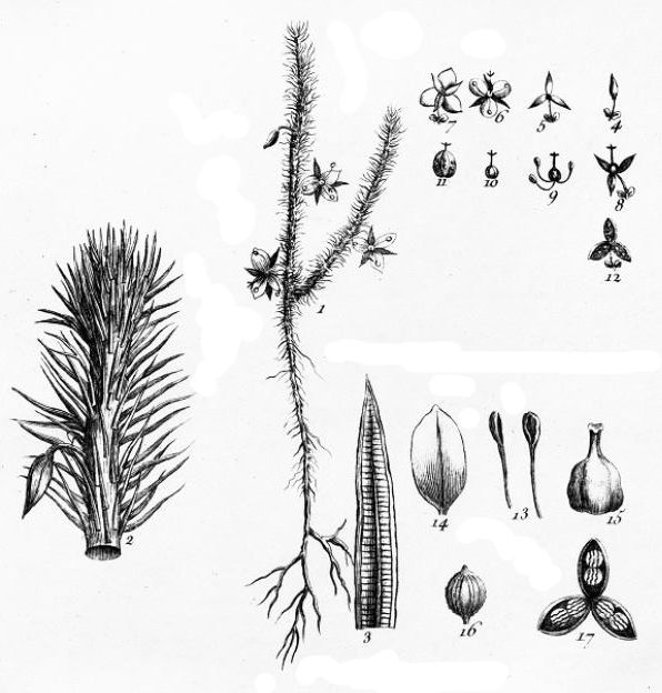 Illustration of Mayaca fluviatilis (Orig. Maiaca fluvialis)